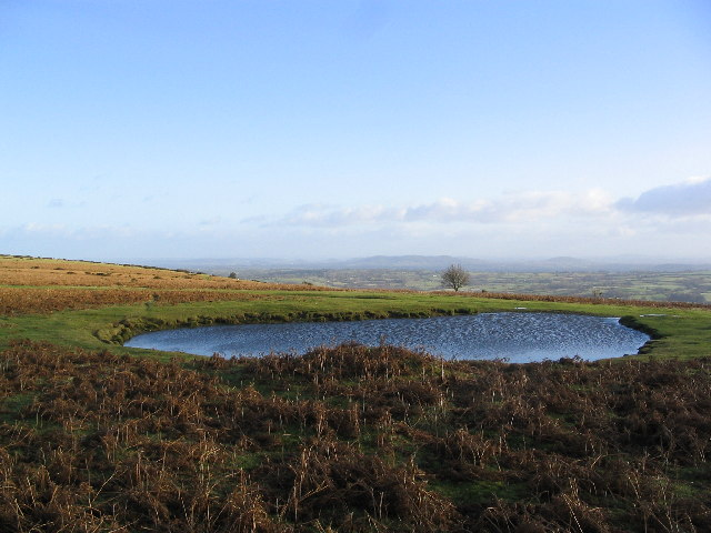 Tarn on Hergest Ridge.